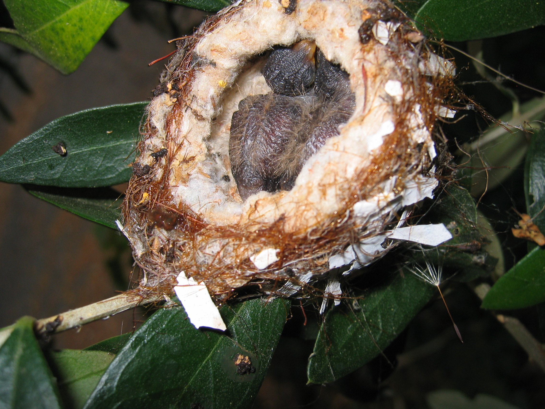 Hummingbird nest with two chicks in Santa Monica, CA. Photo taken June 26, 2006.